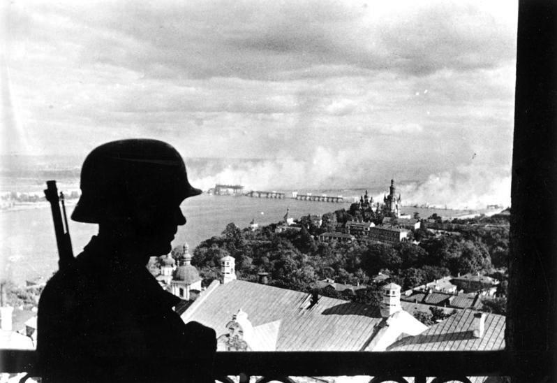 Zentralbild II.Weltkrieg 1939-1945 An der Front in der Sowjetunion UBz.: einen Wachposten der faschistischen deutschen Wehrmacht auf der Zitadelle der am Vortage, dem 19.9.1941 eroberten Stadt Kiew und einen Blick auf die Stadt mit der brennenden Dnjepr-Brücke. PK: Schmidt Information added by Wikimedia users.English (rough translation of original caption) Central image World War II. 1939-1945 At the front, in the Soviet Union Shown here, sentinels of the fascist German Wehrmacht on the citadel of the previous day, the conquered city of Kiev on 09.19.1941 and a view of the city with the burning Dnieper River Bridge in background.